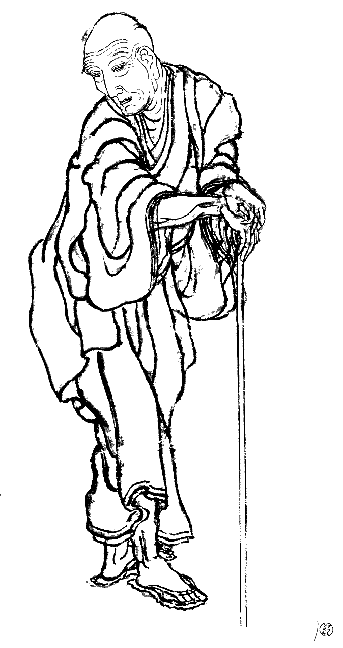 Self portrait as an old man. Original in Louvre.